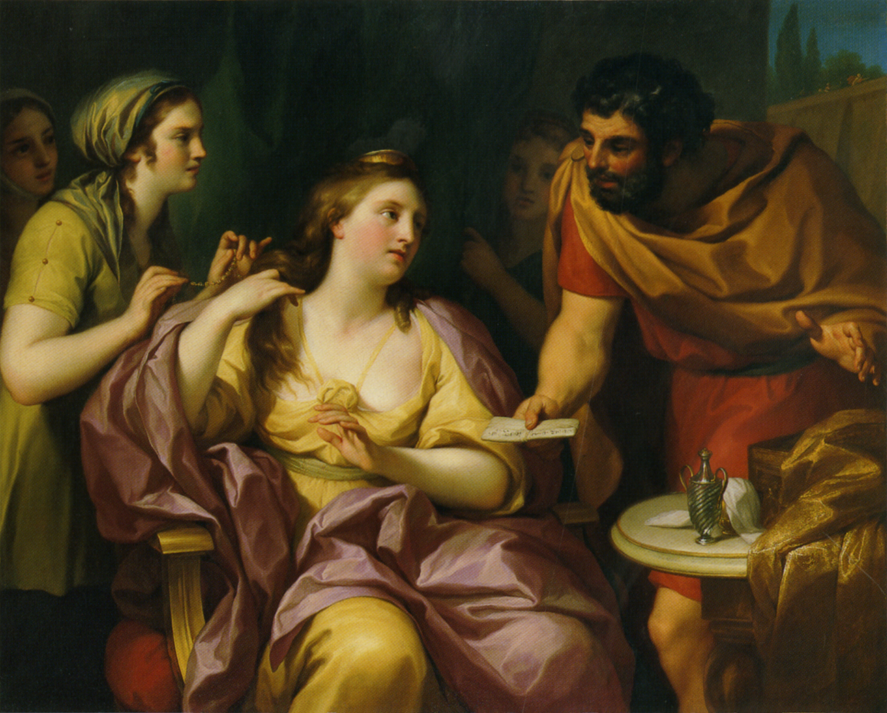 Semiramis Receives News of the Babylonian Revolt by Anton Raphael Mengs. Now in the Neues Schloss, Bayreuth. Oil on canvas, 105.5 x 137 cm.